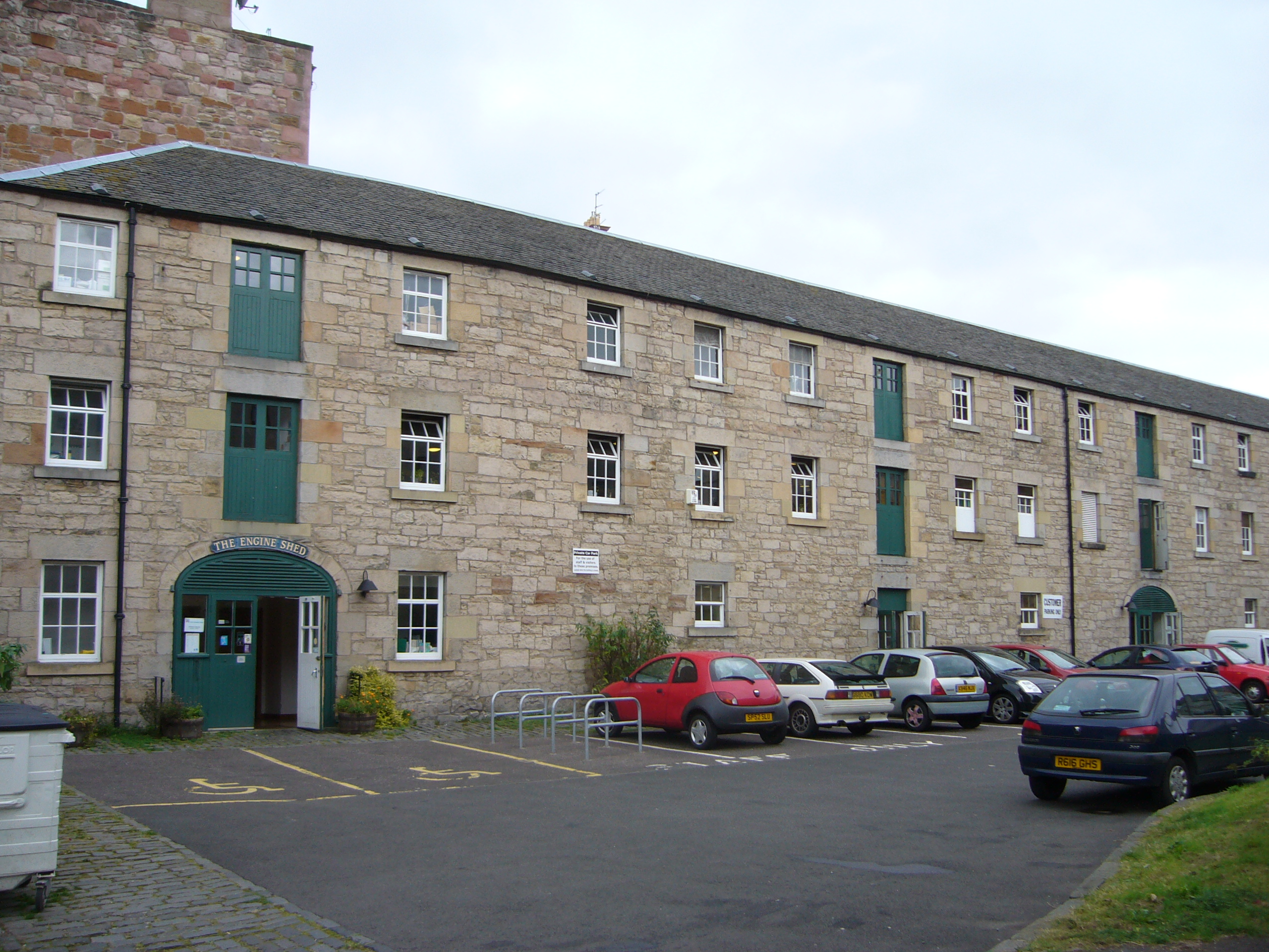 Now converted into a bakery, this building (still called 'The Engine Shed') was the terminus of the Edinburgh-Dalkeith Railway, known as the 'Innocent Railway' because of its unblemished safety record. It housed stationary engines which pulled trains up the long steep incline from Duddingston. It survived within the old St. Leonard's railway depot until that was swept away to create a new residential development.